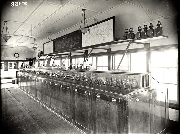 The interior of the Illawarra Junction Signal Box at Central Railway Station Dated: No date Digital ID: 17420_a014_a0140001071 Rights: We'd love to hear from you if you use our photos. Many other photos in our collection are available to view and browse on our website using Photo Investigator.